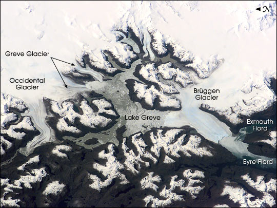 Brüggen Glacier and surroundig area, Chile